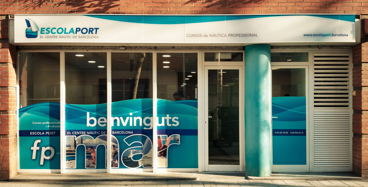 sailing boat property of Escola Port